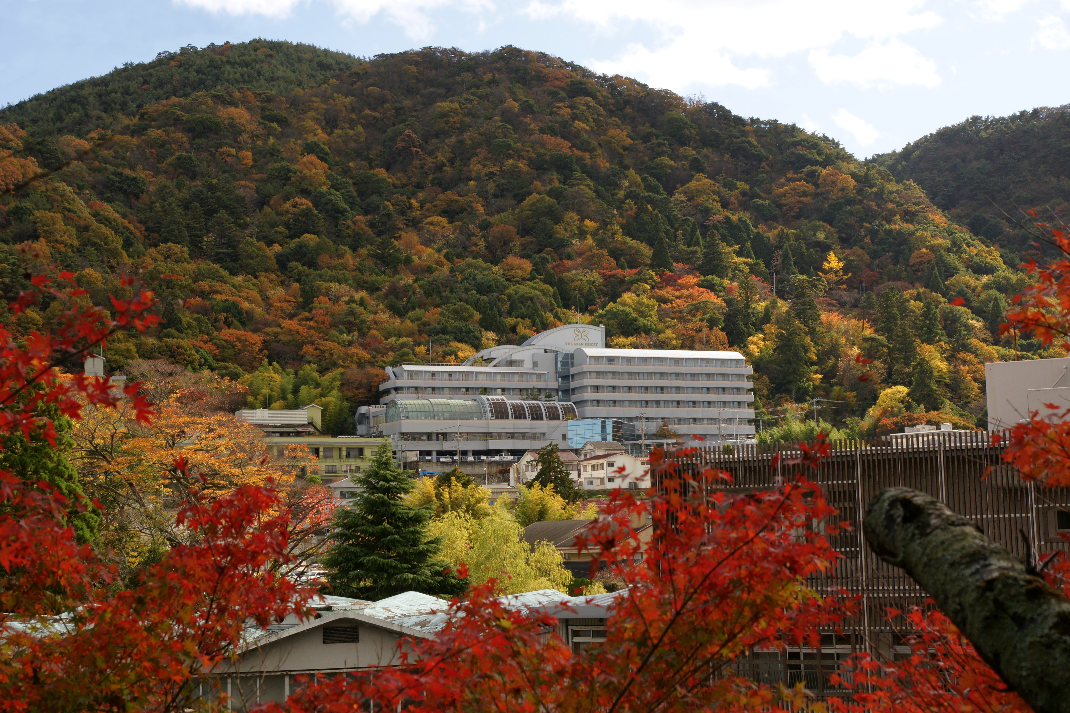 The Gran Resort Princess Arima in Arima onsen, Kobe, Hyogo prefecture, Japan